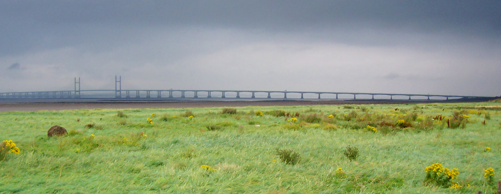 Bridge across the mouth of River Sever Česky: Most přes estuár řeky Severn